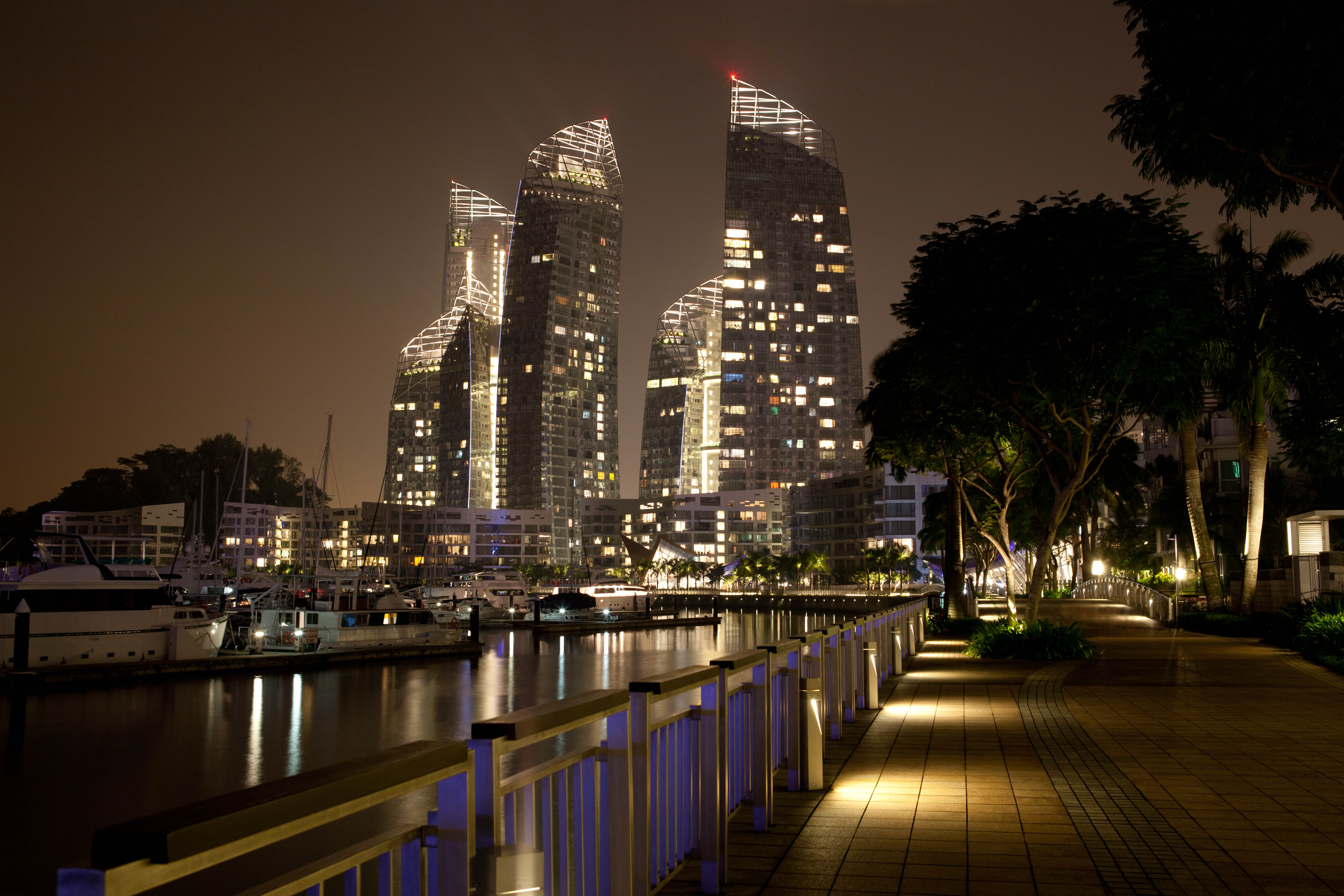 Reflects at Keppel Bay